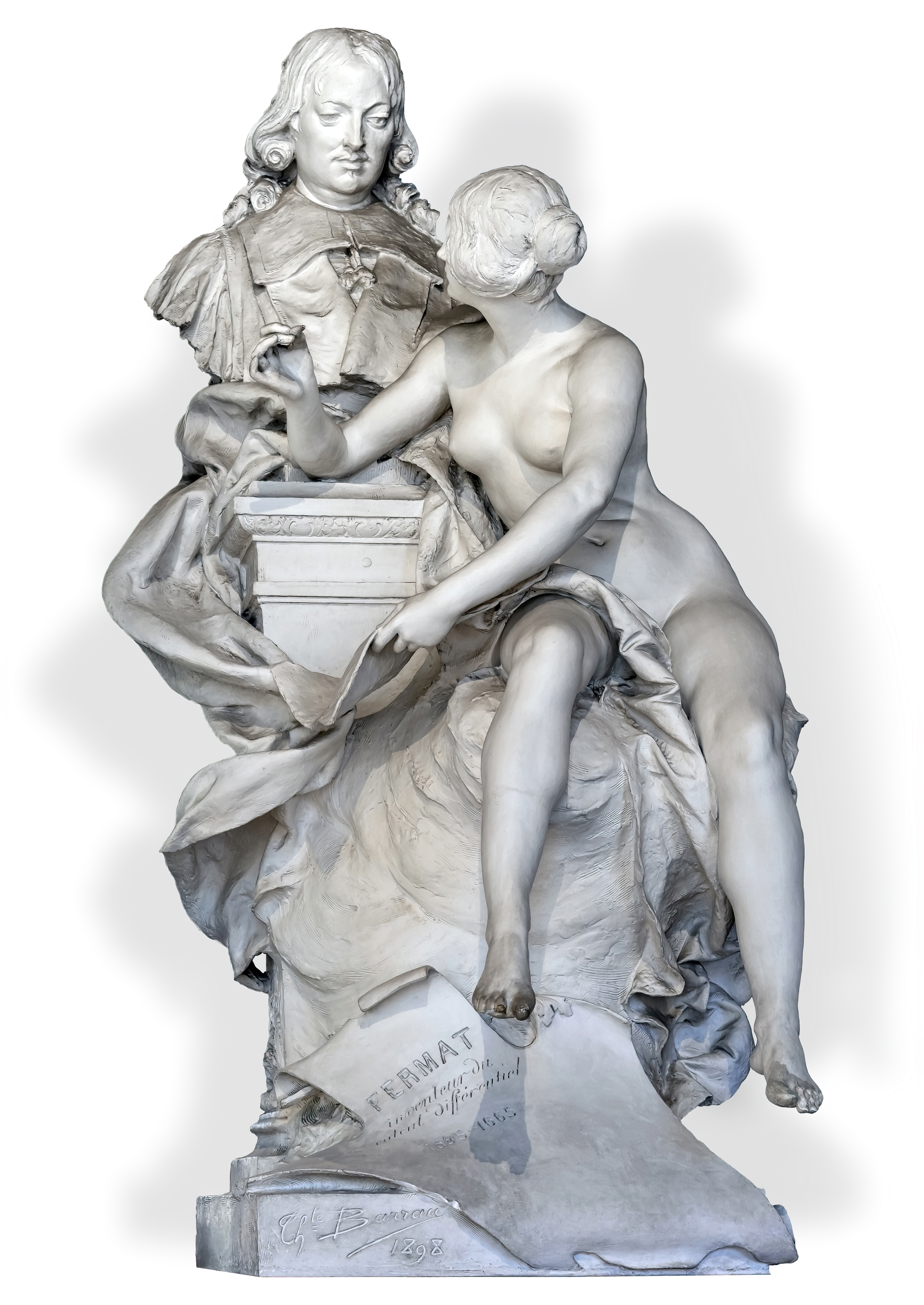 Depicted person: Pierre de Fermat – French mathematician and lawyer